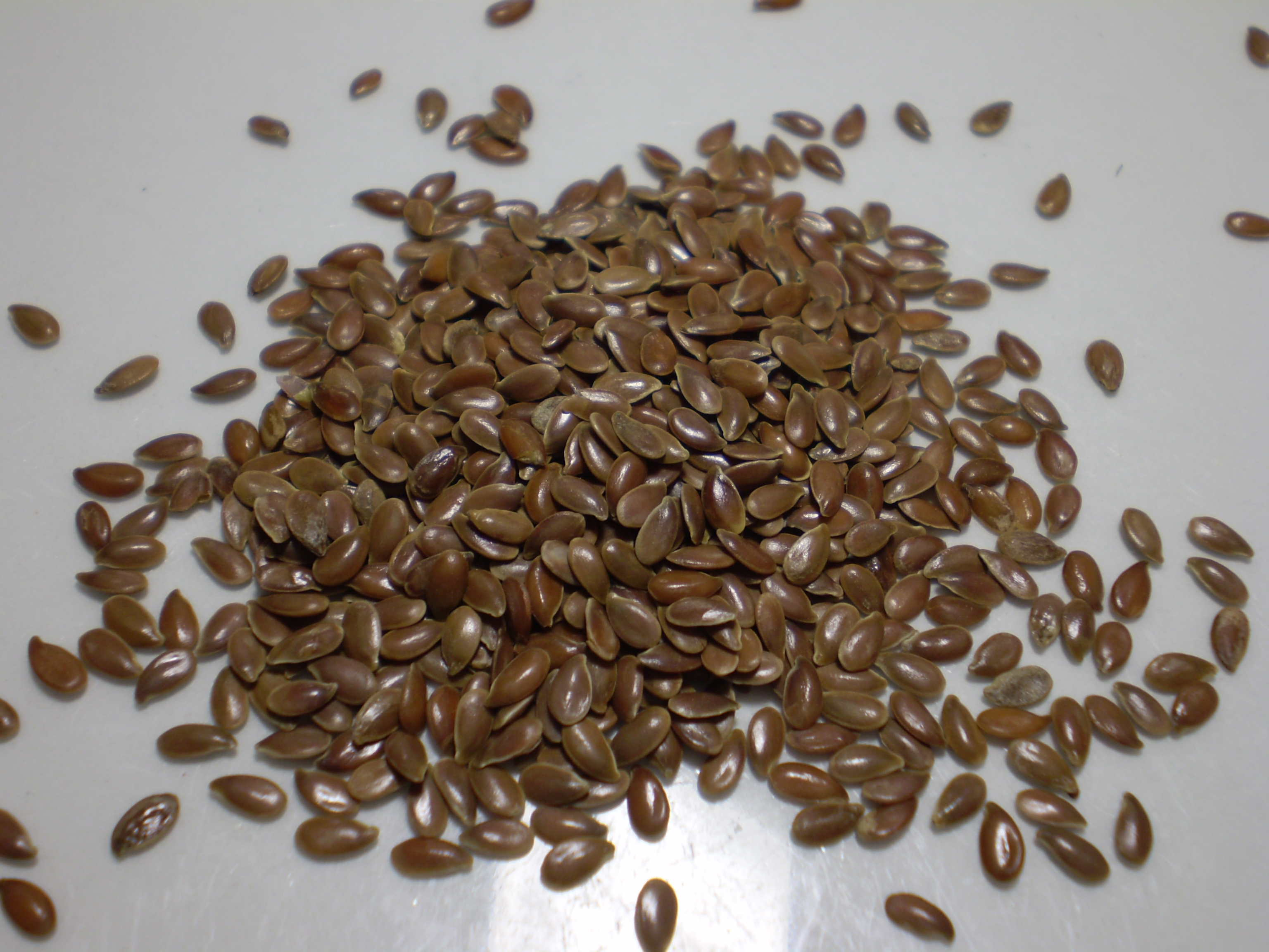 Linseed on the plate